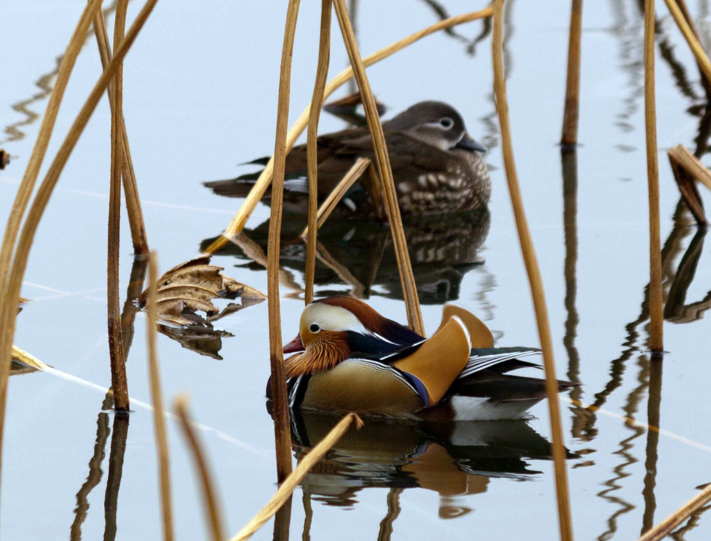 A pair of Mandarin Ducks at Bei Hai Park, Changqiao, Beijing, China.